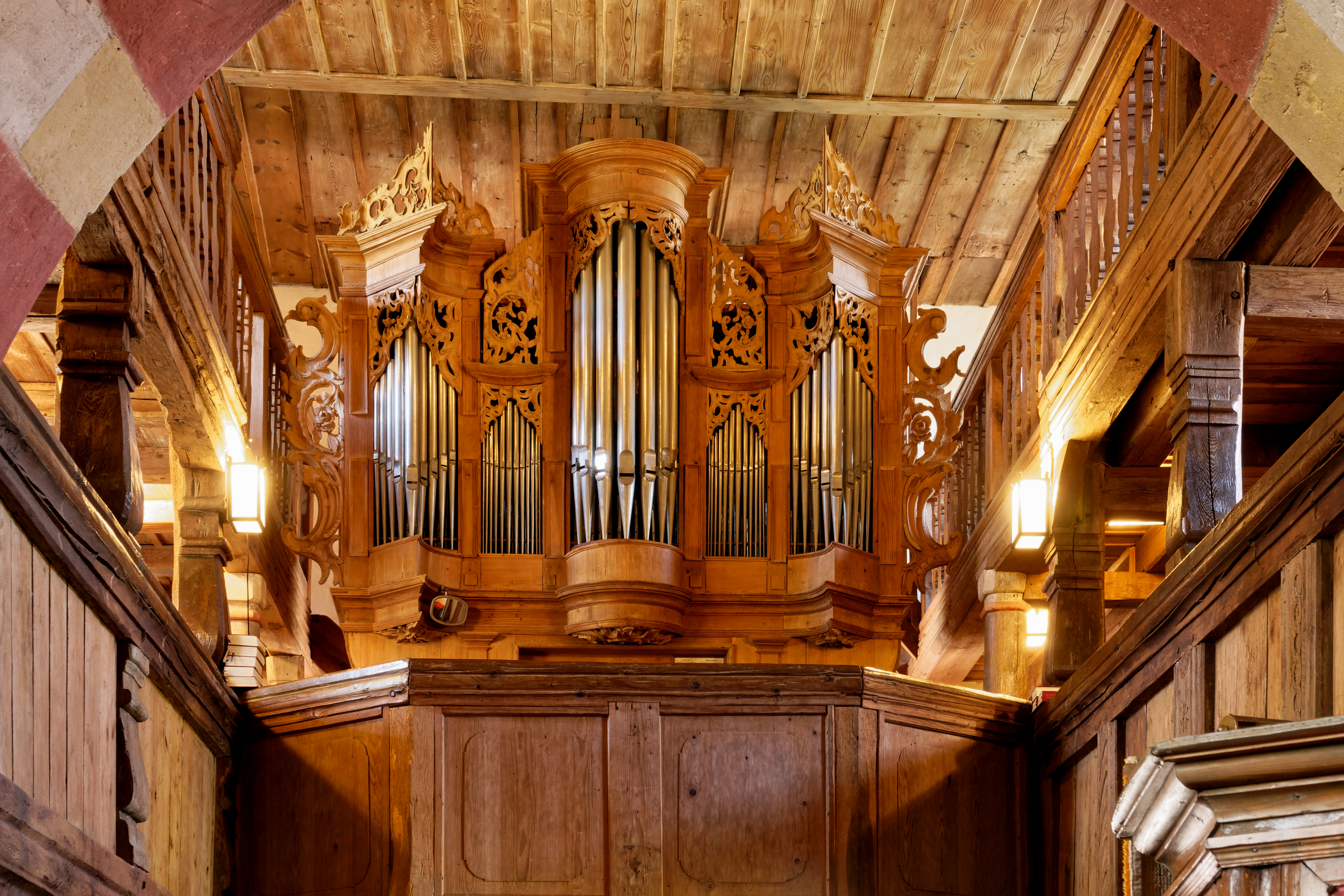 The St. Jame´s Church in Urphar.